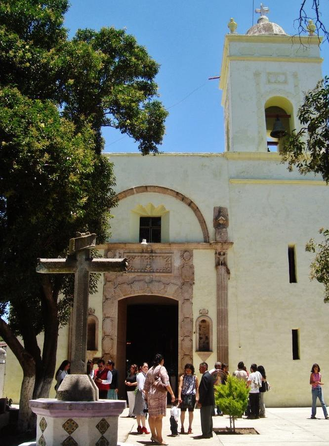 Saint Francis of Assisi Church, Jaltepec, Tulancingo, Hidalgo, Mexico